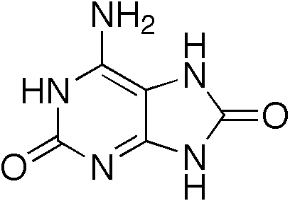 chemical structure of 2,8-dihydroxyadenine